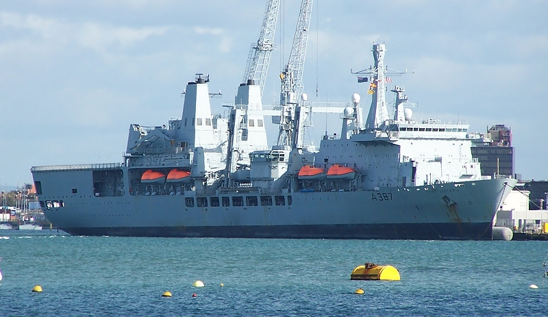 RFA Fort Victoria (A387) at HMNB Portsmouth IMO Number: 8606032 MMSI Number: 233135000 Callsign: GACE Length: 212 m Beam: 30 m